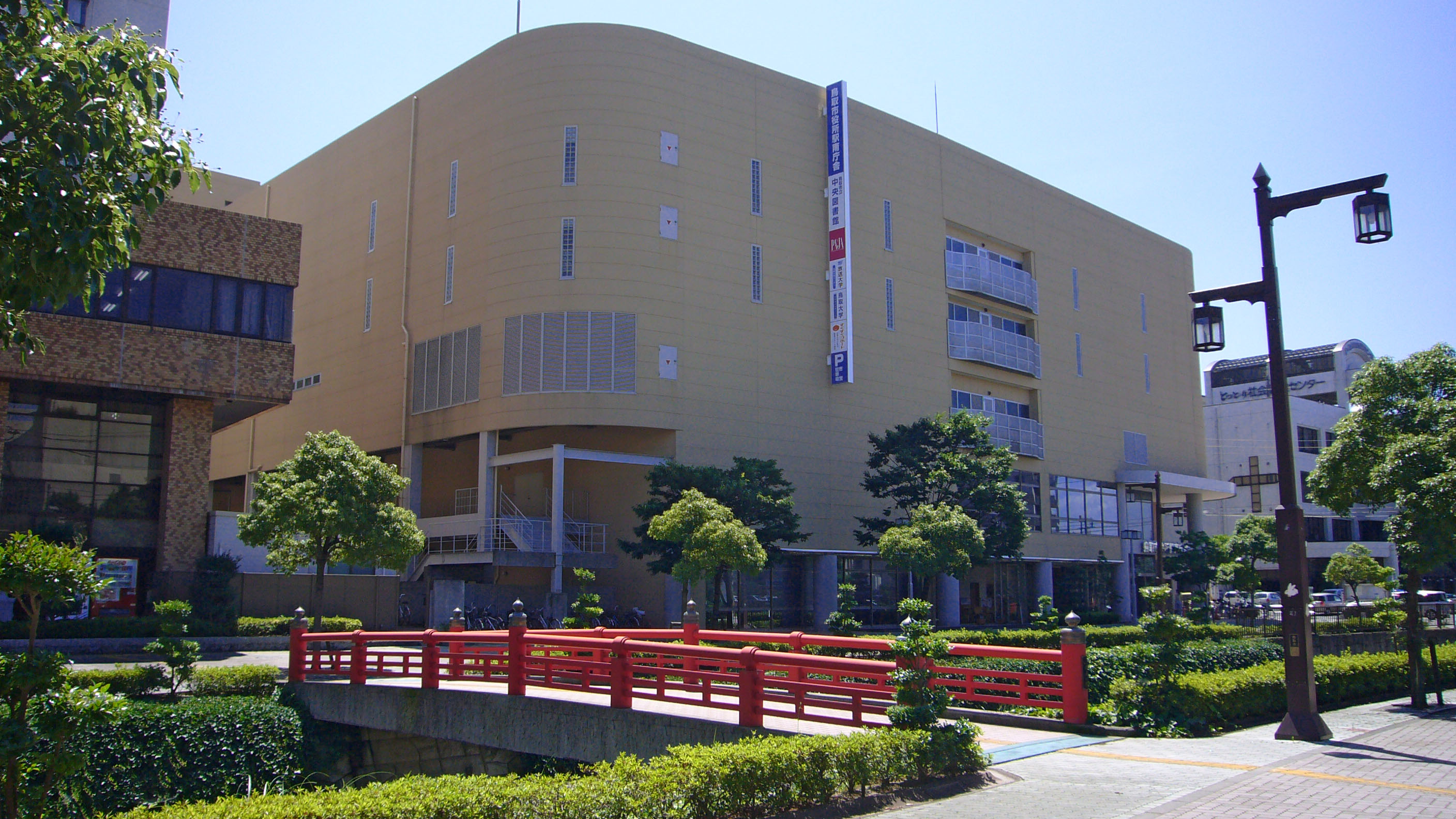 Tottori City Hall Ekinan Building, Tottori City Library in Tottori, Tottori prefecture, Japan